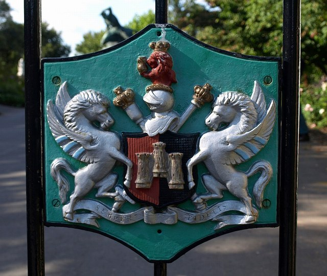 Coat of arms of the city of Exeter on the gates leading into Northernhay Gardens from Northernhay Place. "Exeter received confirmation of the City's Arms from William Hervey, Clarenceux King of Arms during a visit to Devon in 1564 ... The motto Semper Fidelis (Ever Faithful) was suggested by Elizabeth I in a letter addressed to The Citizens of Exeter in 1588 in recognition of a gift of money towards the fleet that defeated the Spanish Armada." The correct heraldic description is: Party per gale gules and sable (divided vertically red and black), a castle triple-towered with a portcullis or (gold) crest (helmet) upon a wreath or sable (gold and black), a demi lion gules langued and armed azure (a half-lion in red with silver tongue and claws), supporting an orb, a cross thereon, batons or Supporters Two Pegasus argent, (flanked by two silver Pegasus), hoofed and maned or (gold) winged, barry wavy divided horizontally of six argent and azure (in six wavy bands of silver and blue).